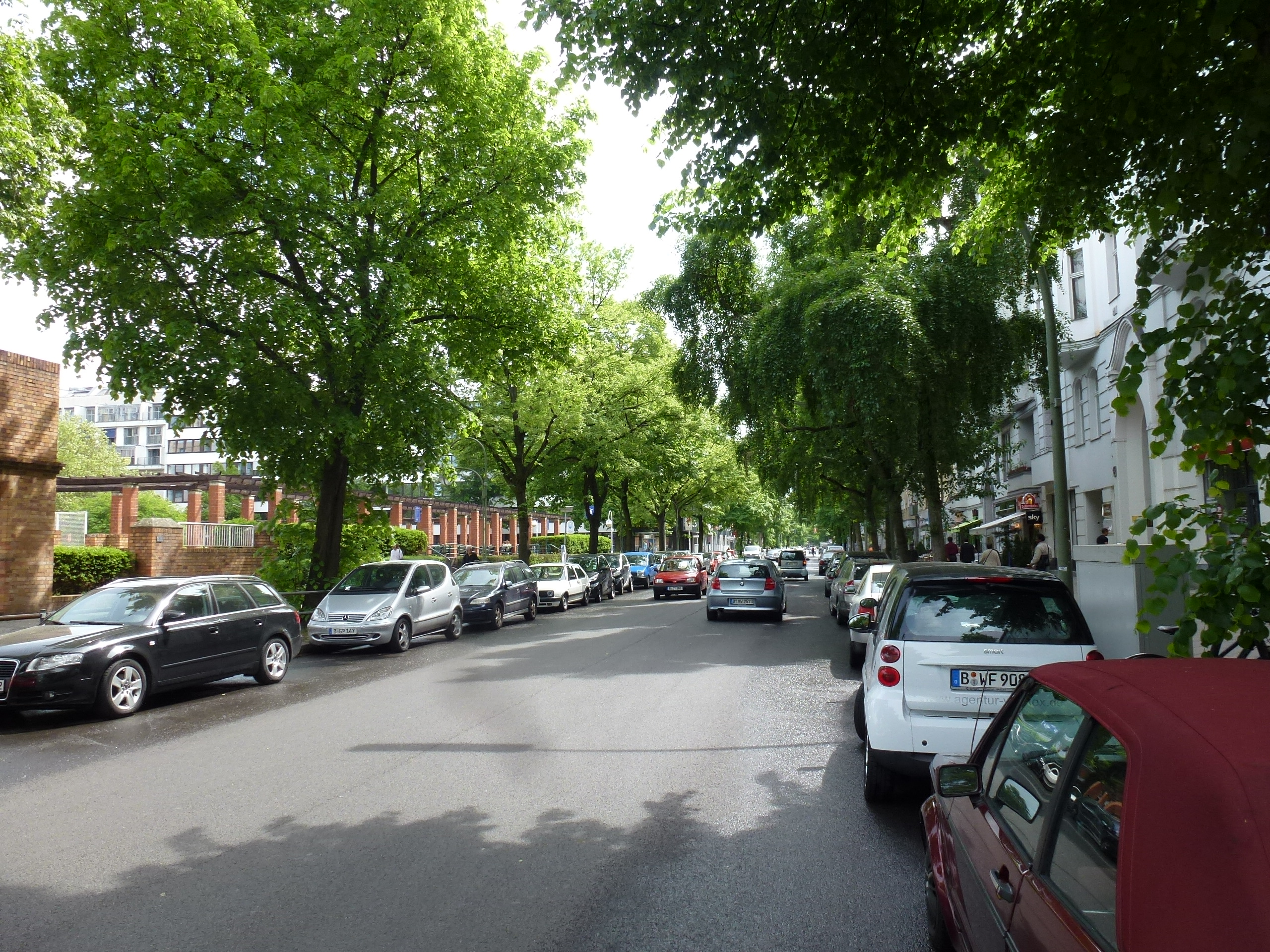 Berlin-Charlottenburg Augsburger Straße